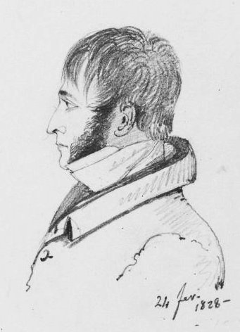 This drawing is taken from a series of 125 profile portraits by Count Alfred d’Orsay, made between about 1828 and 1850 and published by J. Mitchell of Bond Street. 61 similar drawings for the series and several engraved versions are now in the collection of the National Portrait Gallery, London. The sitters were all well-known artists, writers and socialites and this example shows archaeologist Edward Dodwell. Edward Dodwell came from West Molesey in Surrey and was educated at Parson’s Green School in Somerset and Trinity College, Cambridge. He came from a wealthy family and felt no necessity to work. Dodwell travelled widely, visiting Greece three times with fellow archaeologist William Gell in 1801, 1805 and 1806. In 1805 he visited Athens with the intention of making drawings and notes on the Acropolis. To gain entry to the building, Dodwell was required to make a payment to the Turkish governor (or disdar). He paid only part of this fee and, as a result, was not granted permission to enter. Unperturbed, he found an alternative method of entry by bribing the men who guarded the Acropolis. Dodwell spent his last years living between Naples and Rome. He died in Rome in 1832.